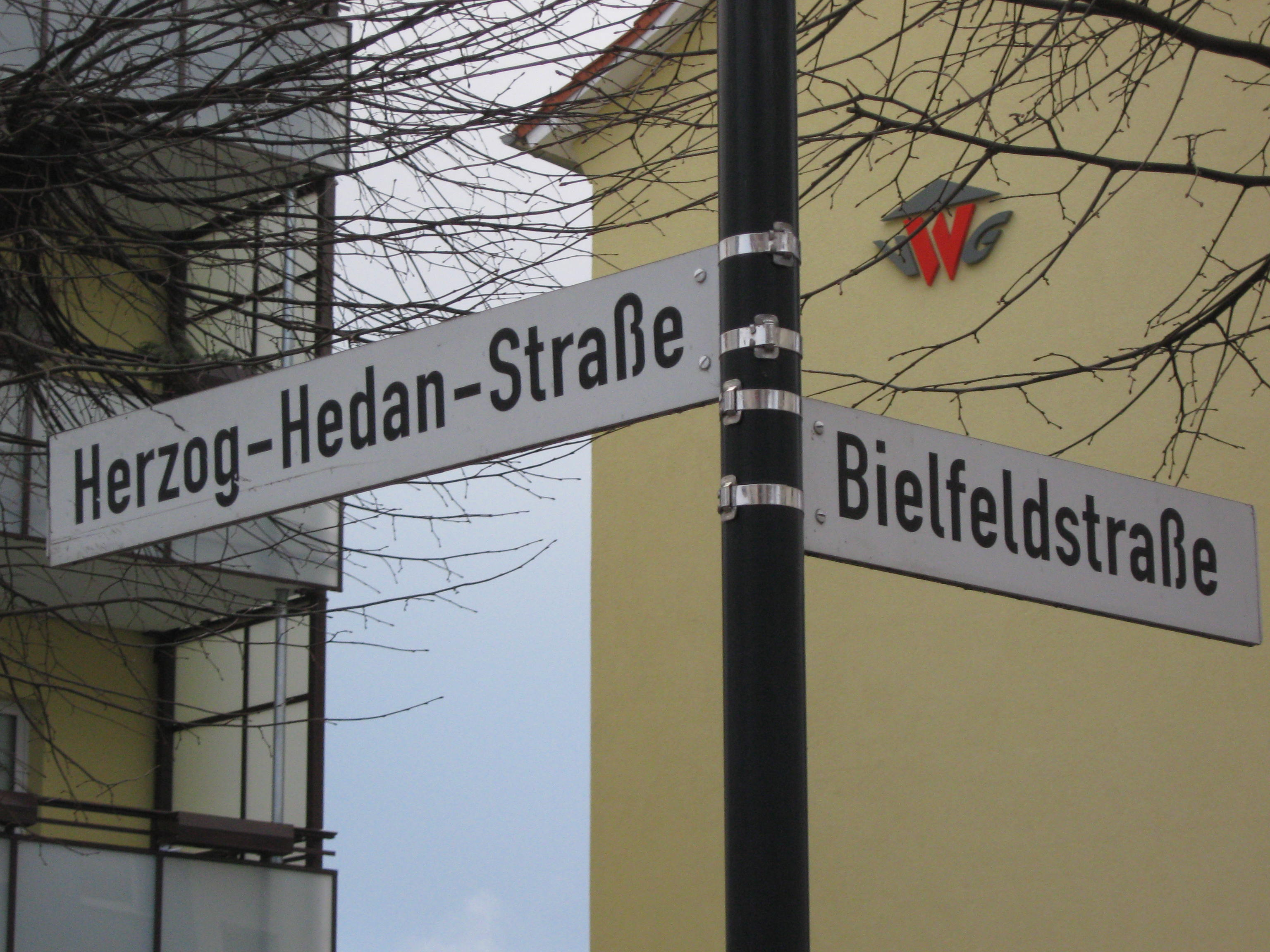 Streets in Arnstadt: Bielfeld, Herzog Hedan